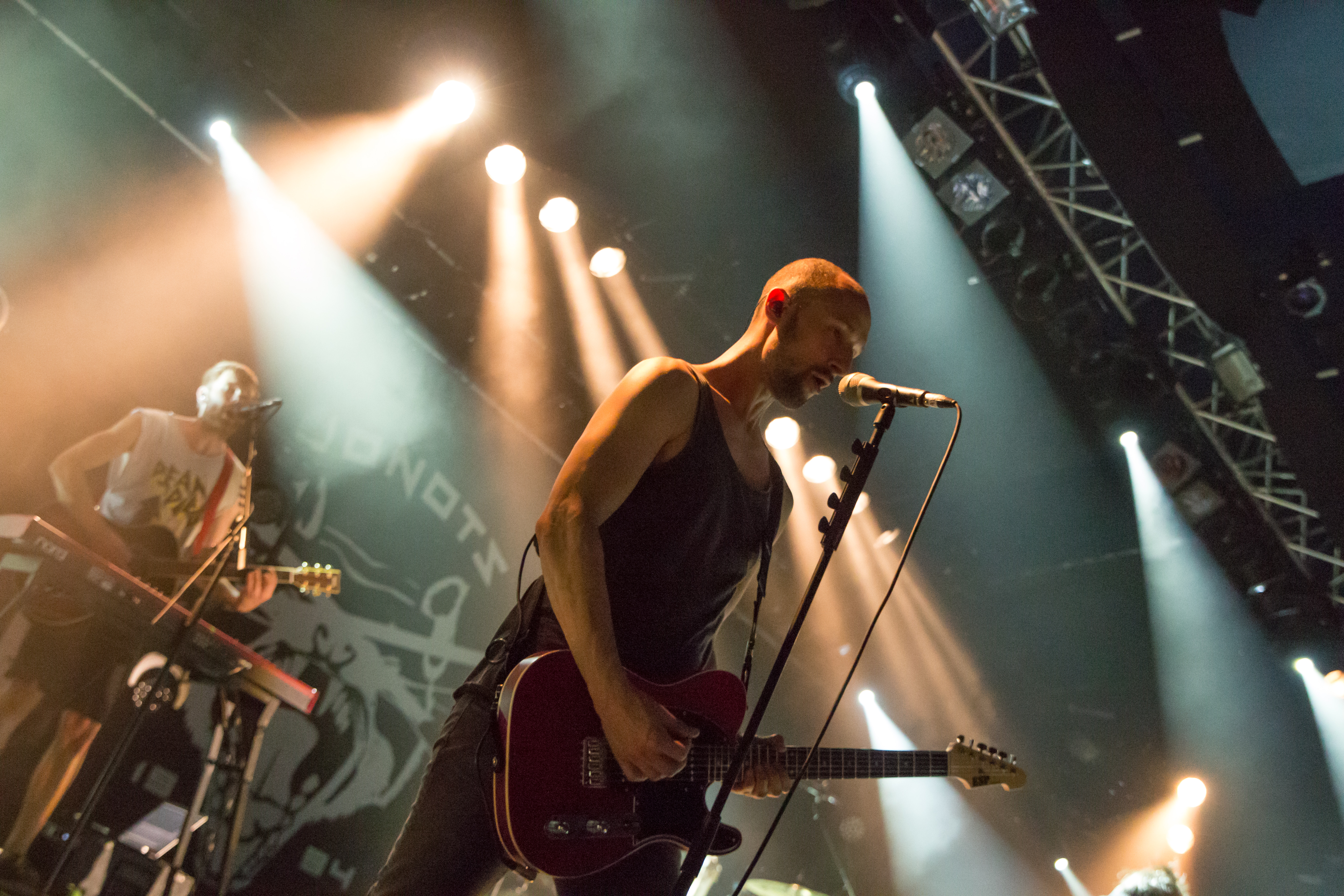 Alex Siedenbiedel, guitarist of Donots, performing at the ZMF Freiburg on July 3rd, 2015.